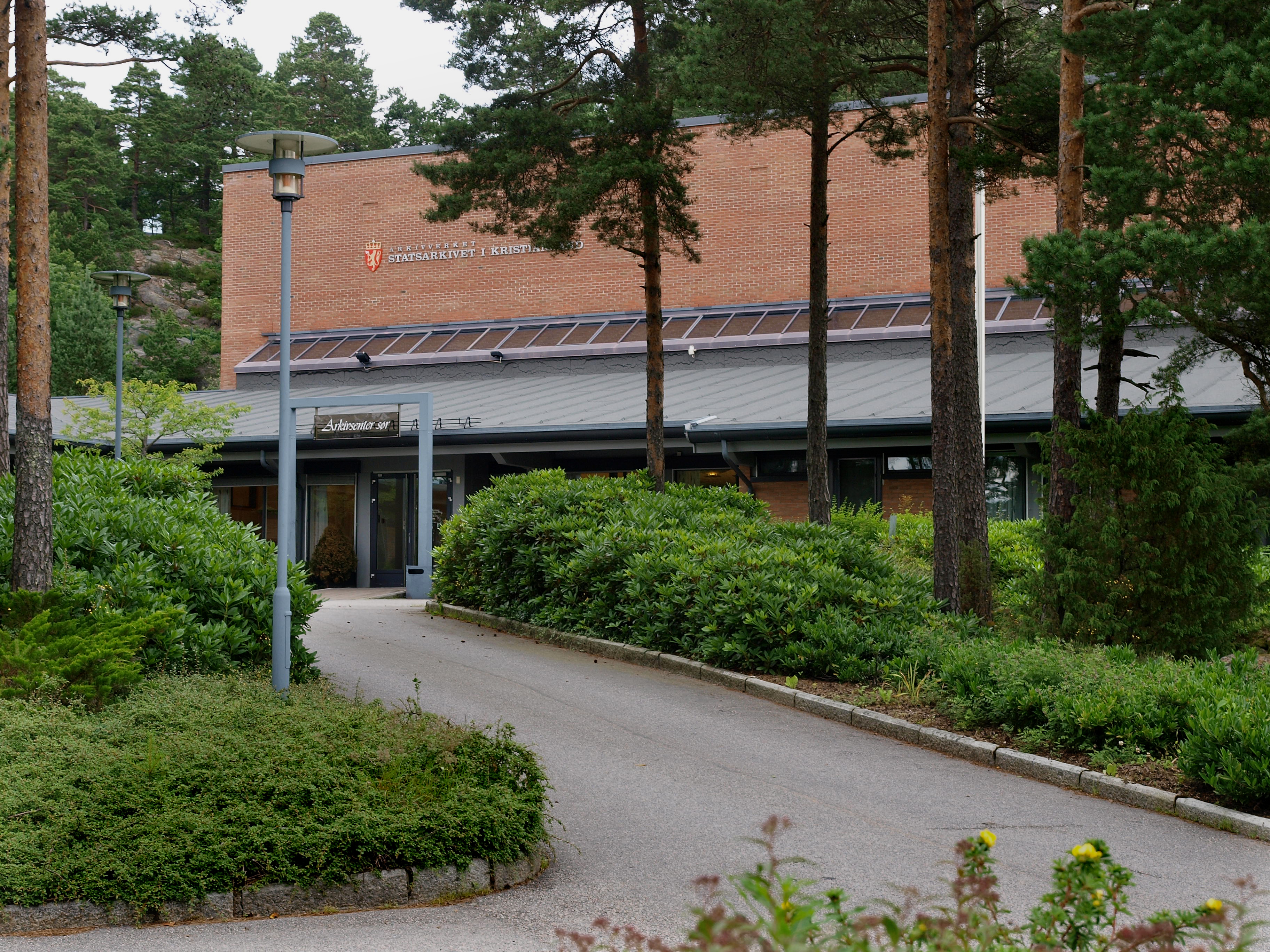 The Regional State Archives in Kristiansand, front entry.